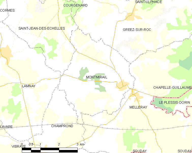 Map of French municipality